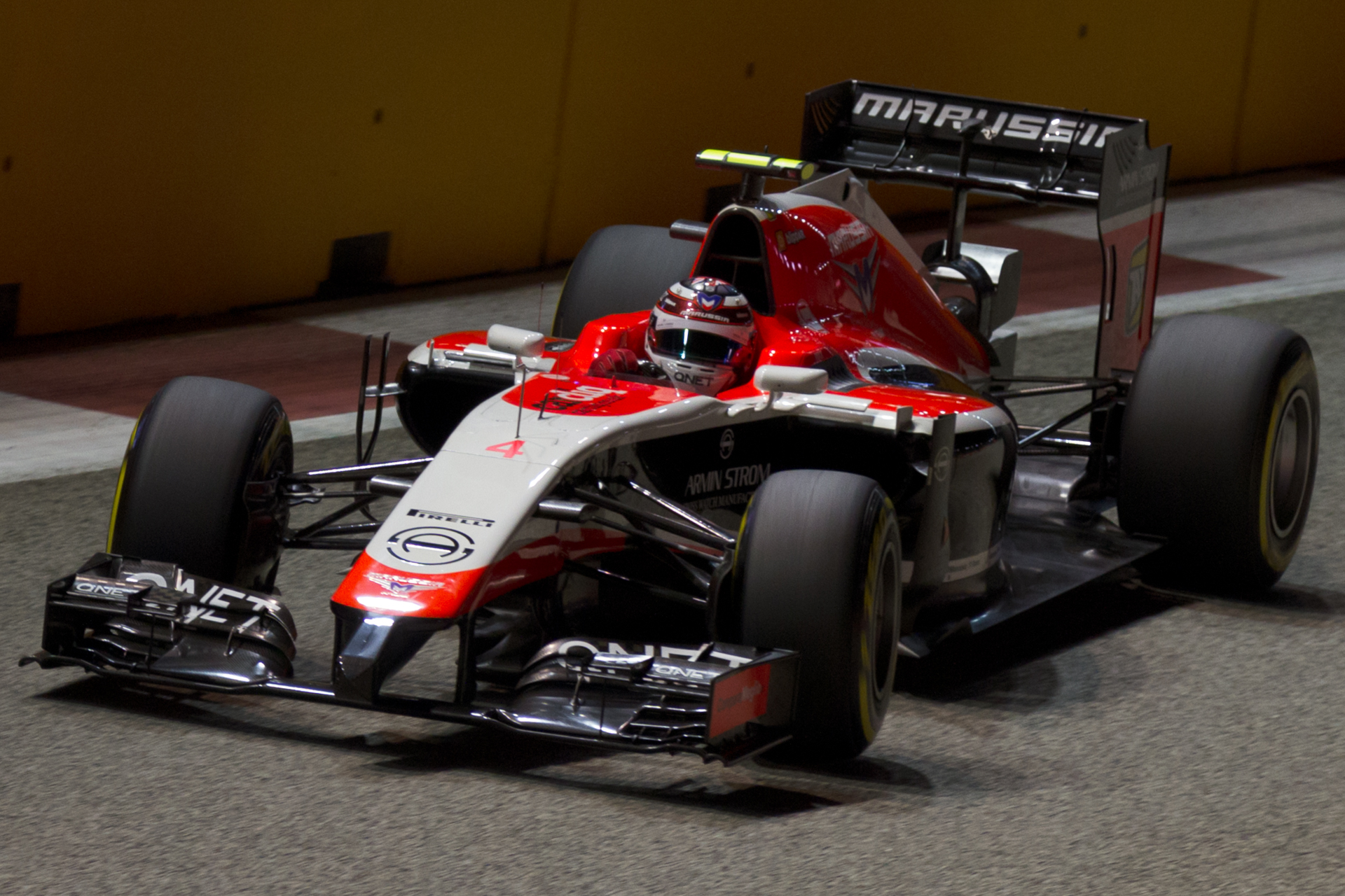 Formula One 2014 Rd.14 Singapore GP: Max Chilton (Marussia)